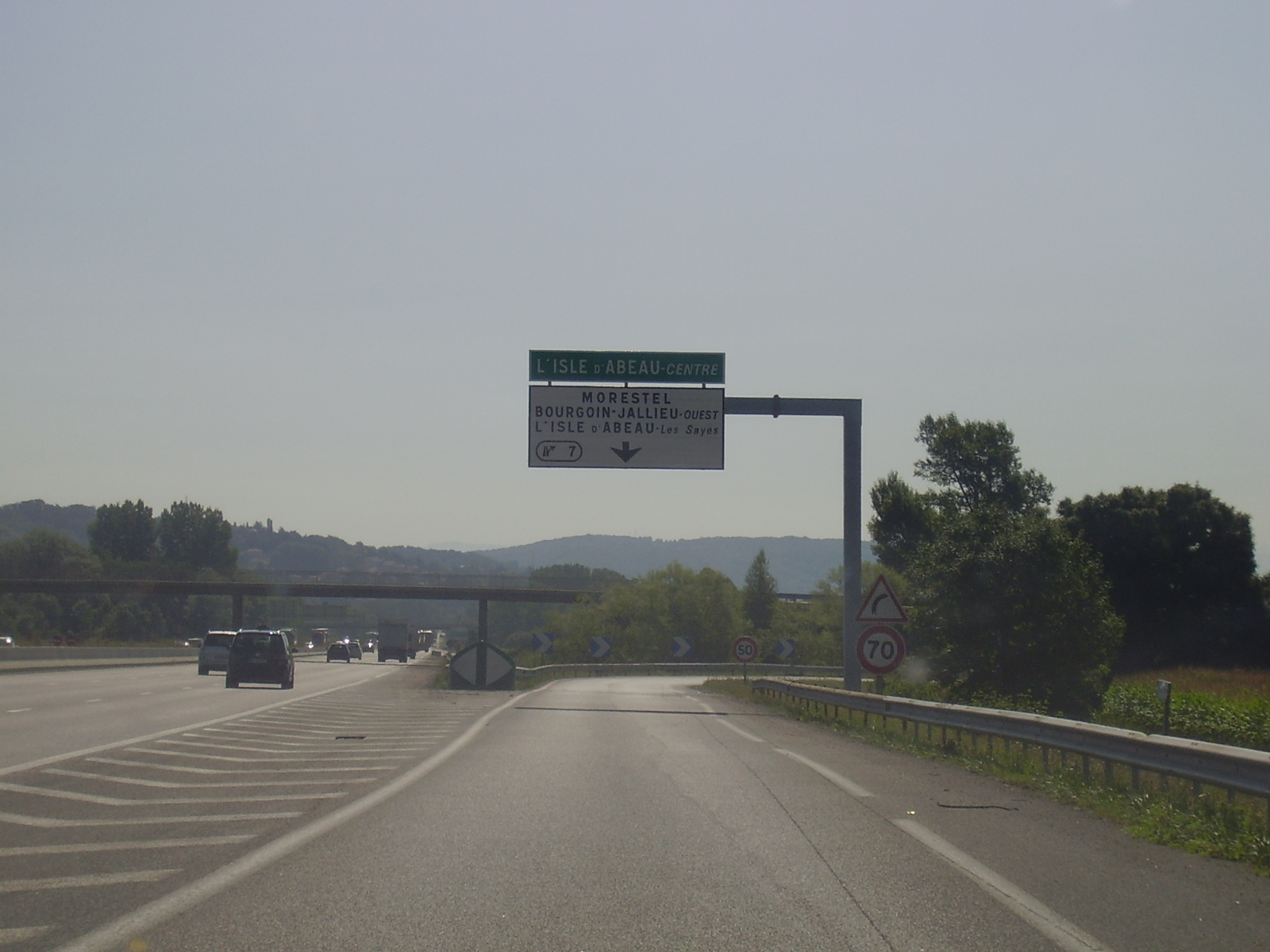 A43 motorway in France (Lyon - exit 7 - Chambéry)